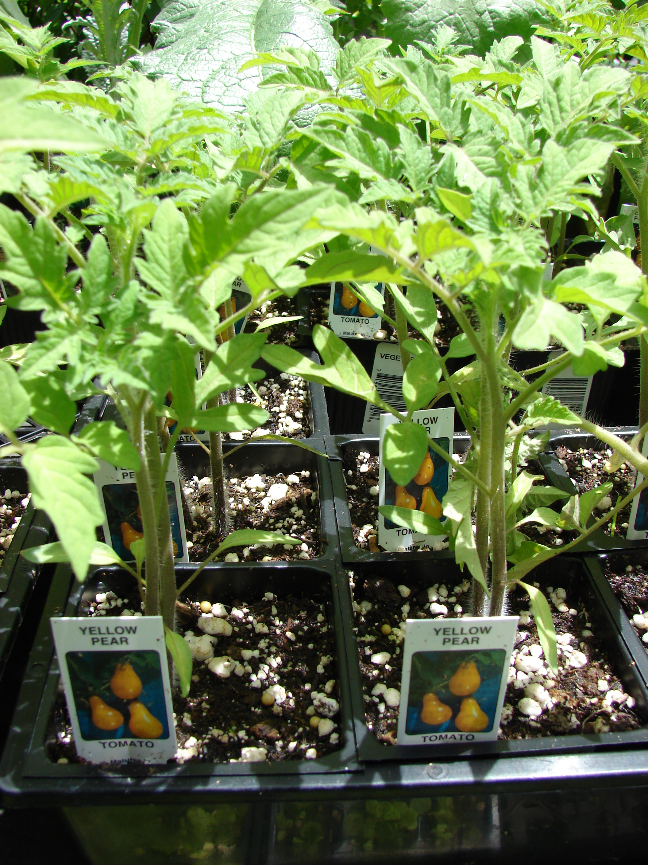 Solanum lycopersicum var. lycopersicum (yellow pear habit). Location: Maui, Kula Ace Hardware and Nursery